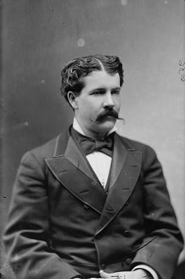 Joseph H. Acklen (1850 - 1938), U.S. Congressman from Louisiana